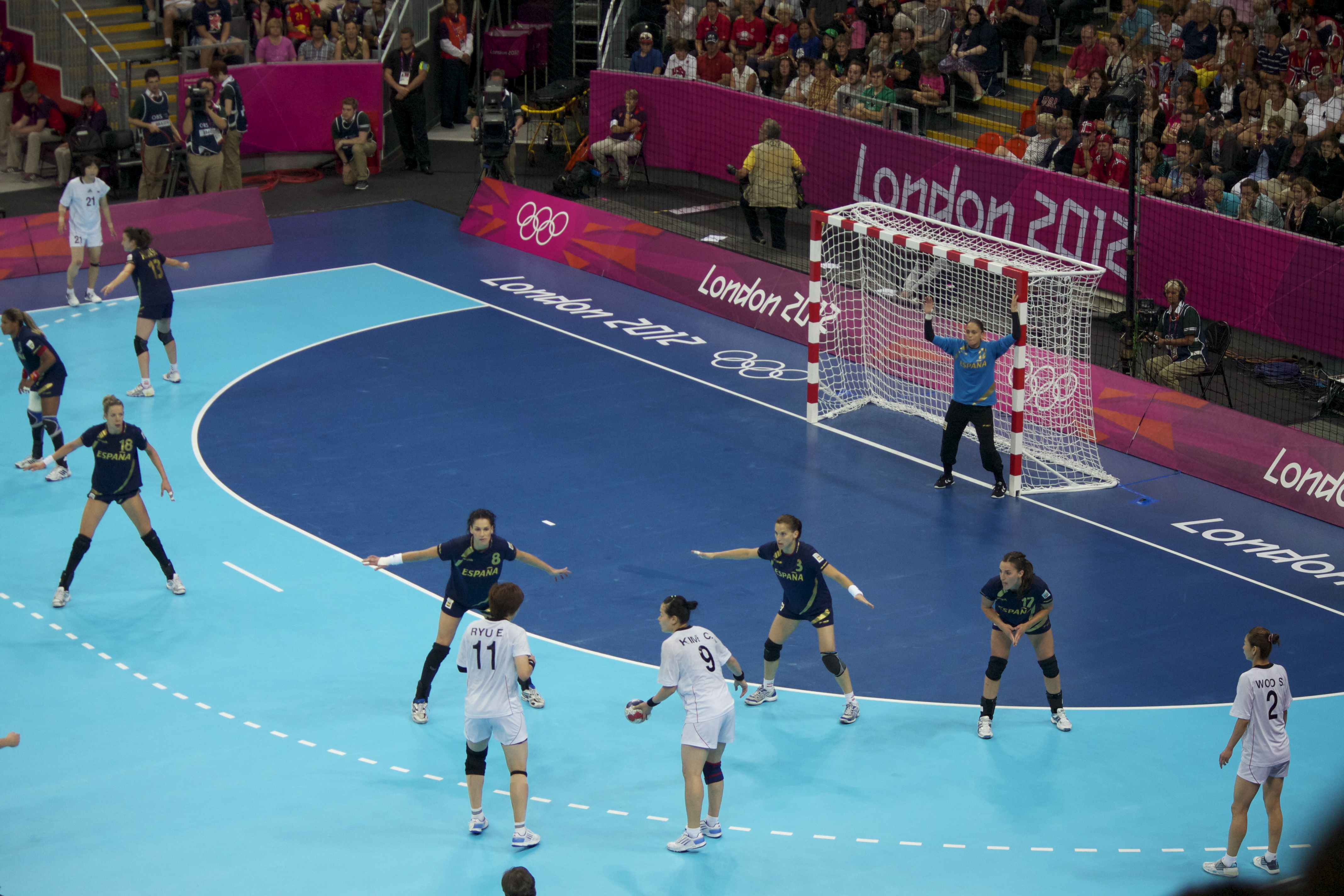 South Korea vs. Spain